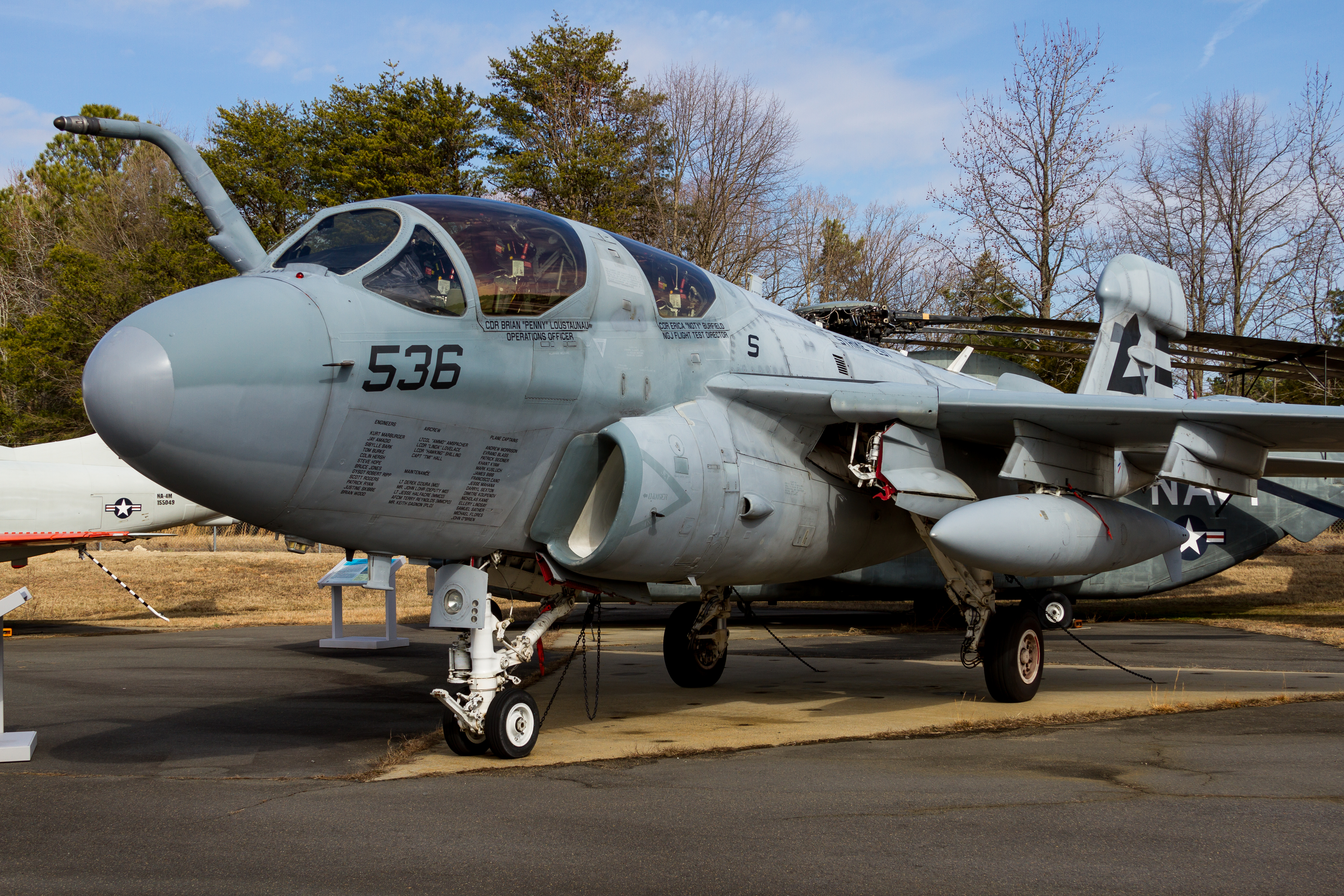 An EA-6B Prowler (BN 159909) on display at the Patuxent River Naval Air Museum.